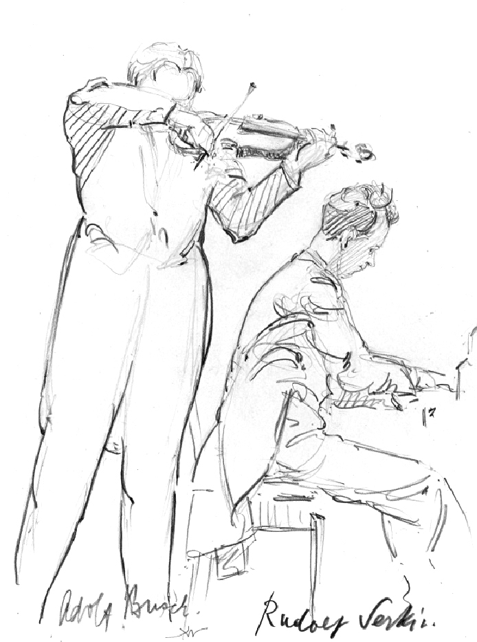 Rudolf Serkin and Adolf Busch at the Brussels Conservatory in 1935 pencil on paper 22 x 17 cm signed l.c.: HW signed by performer l.l.:Adolf Busch signed by performer l.r.: Rudolf Serkin